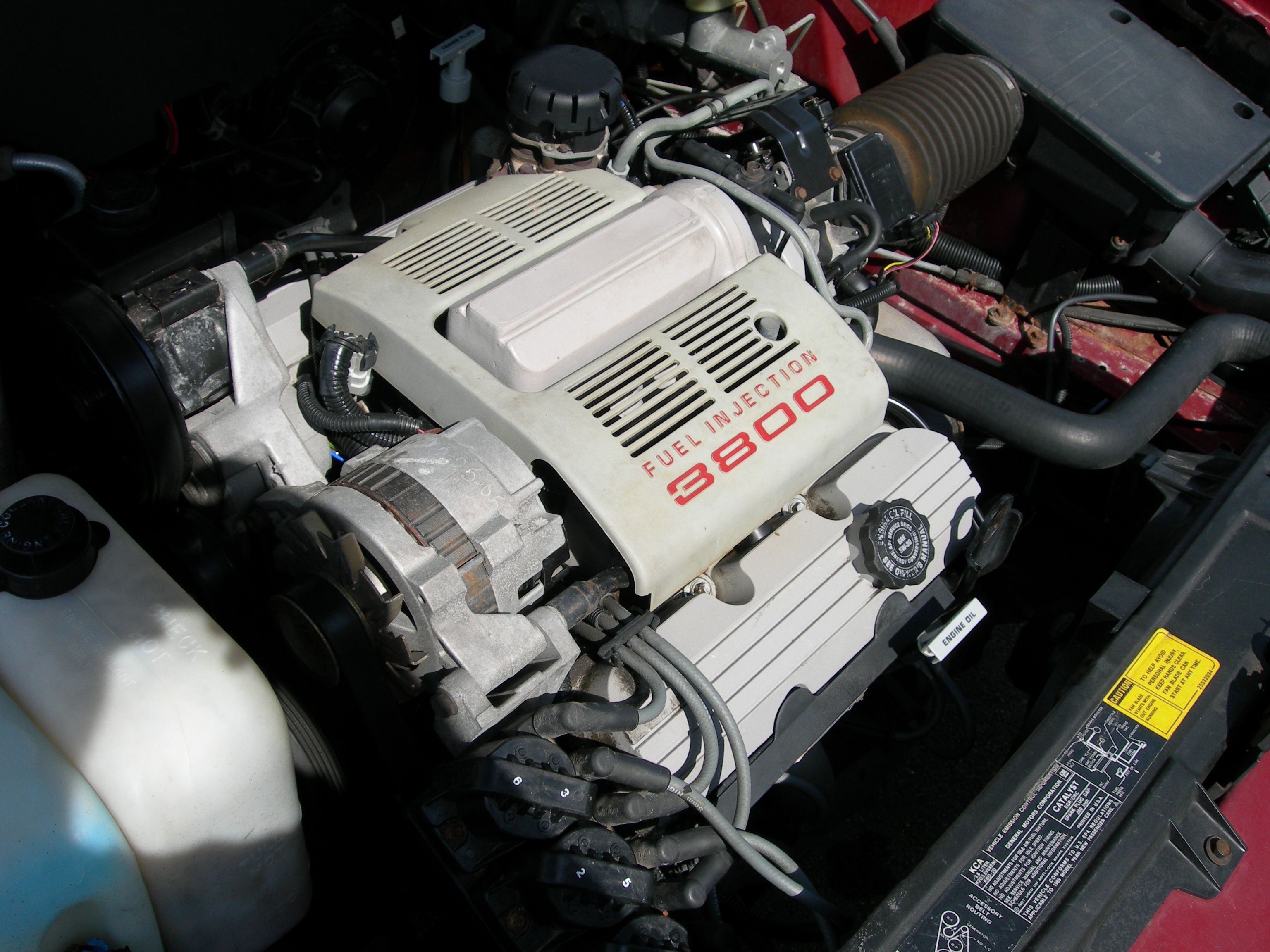 This is a 3800 LN3 Buick V6 Engine from a 1989 Pontiac Bonneville as well as the 1989 Olsmobile Toronado.